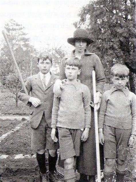 Beatrice, Duchess of Galliera with her 3 sons: Álvaro, Alonso and Ataúlfo